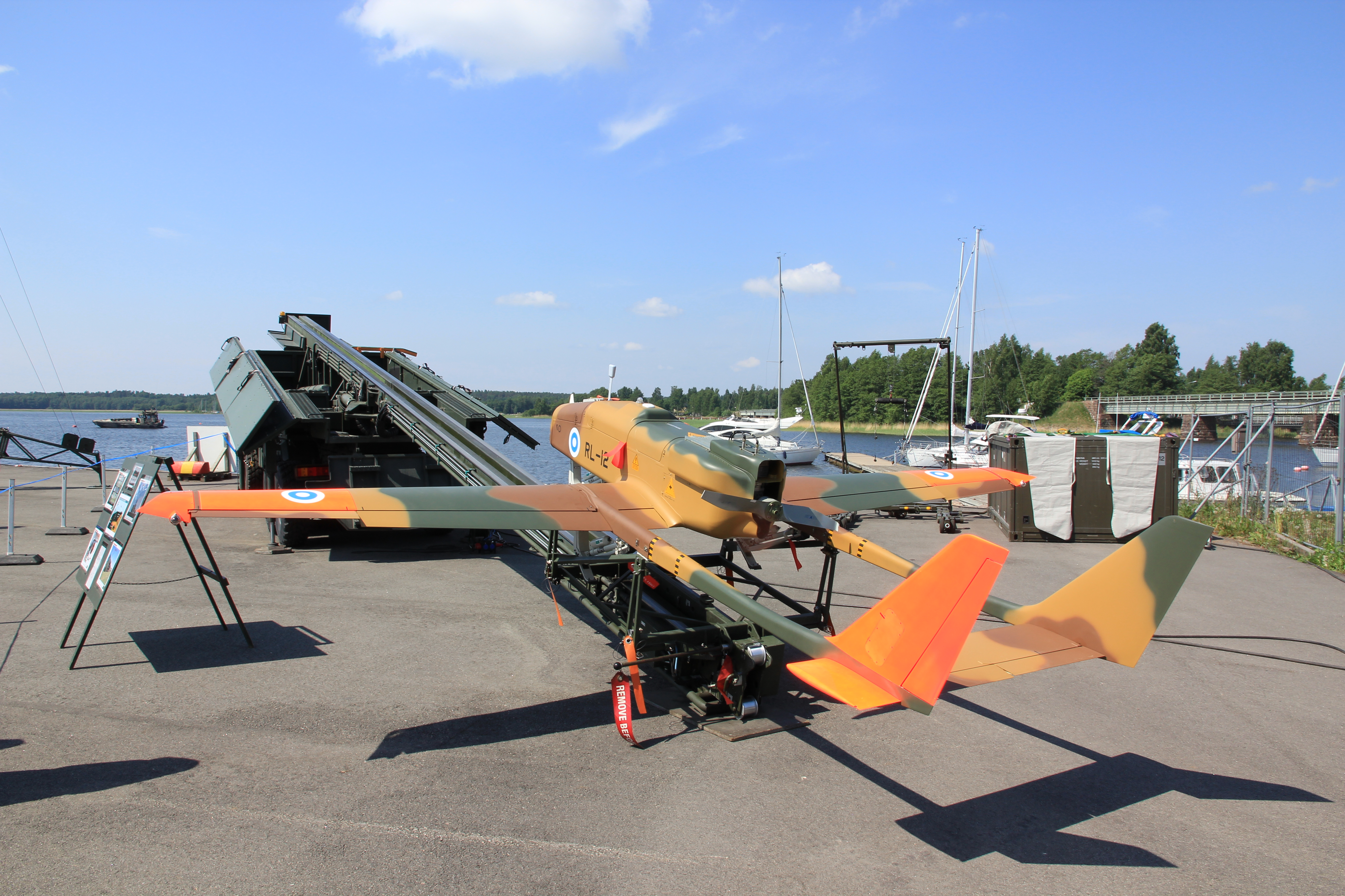 RUAG Ranger UAV (RL-12) on launch catapult on display during Finnish Defence Forces 2013 Flag day in Ekenäs harbour.